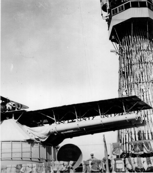 Nieuport 28C-1 mounted on gun platform on the USS Arizona